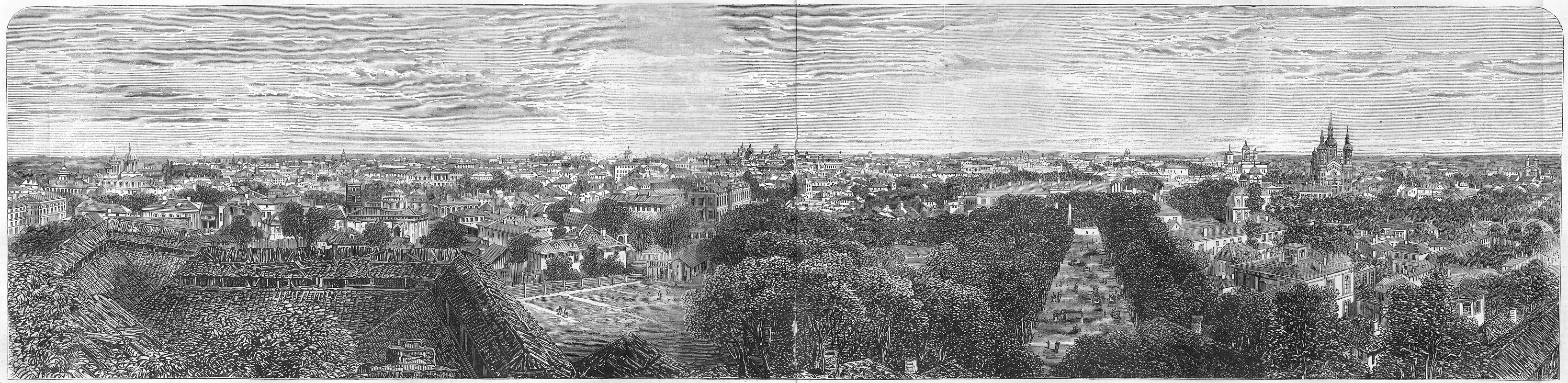 Bucharest panorama "A View of Bucharest - The Scene of The Late Inundation"